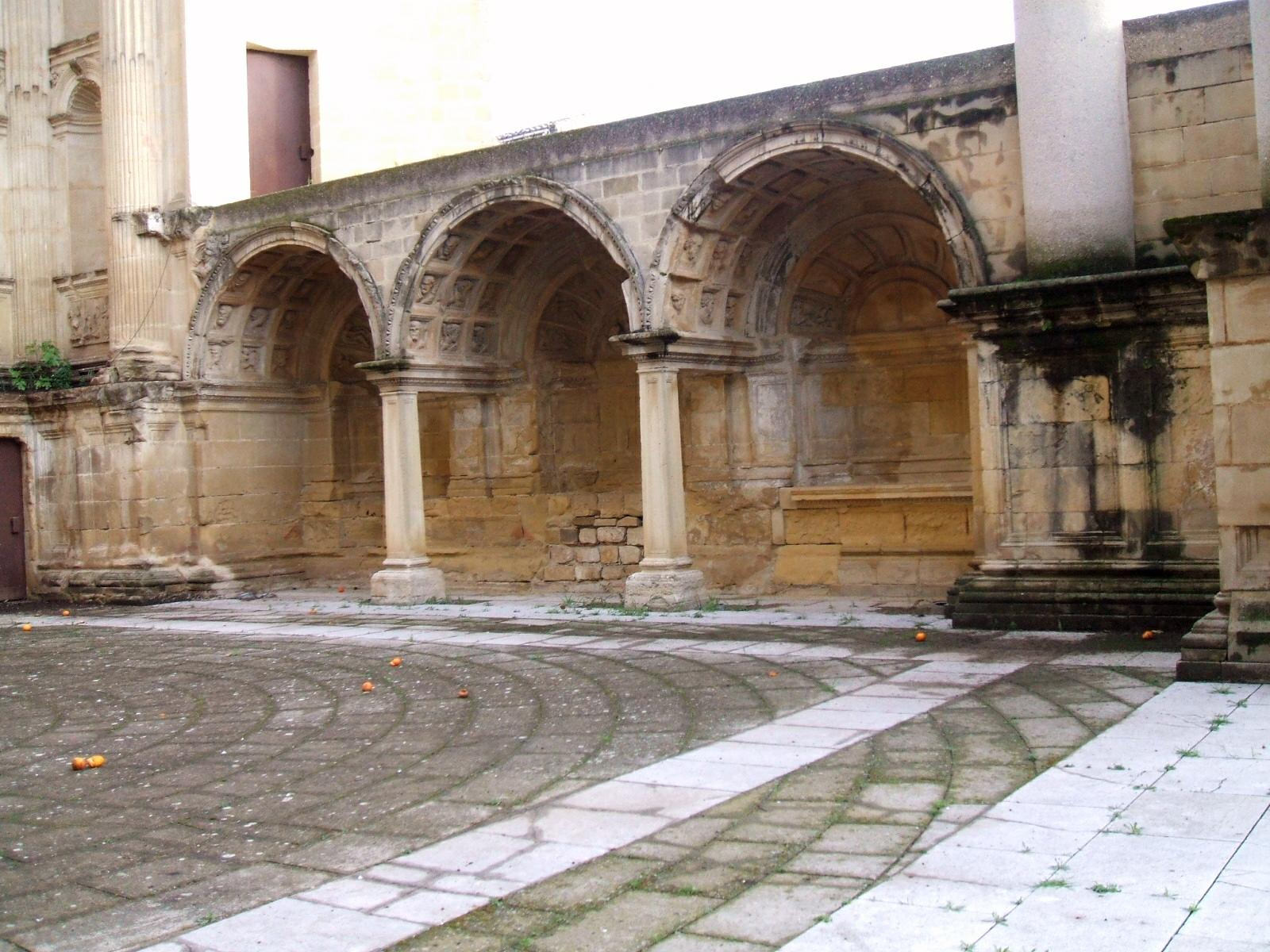 Restos del antiguo Convento de San Francisco de Baeza (Jaén, Andalucía, España)